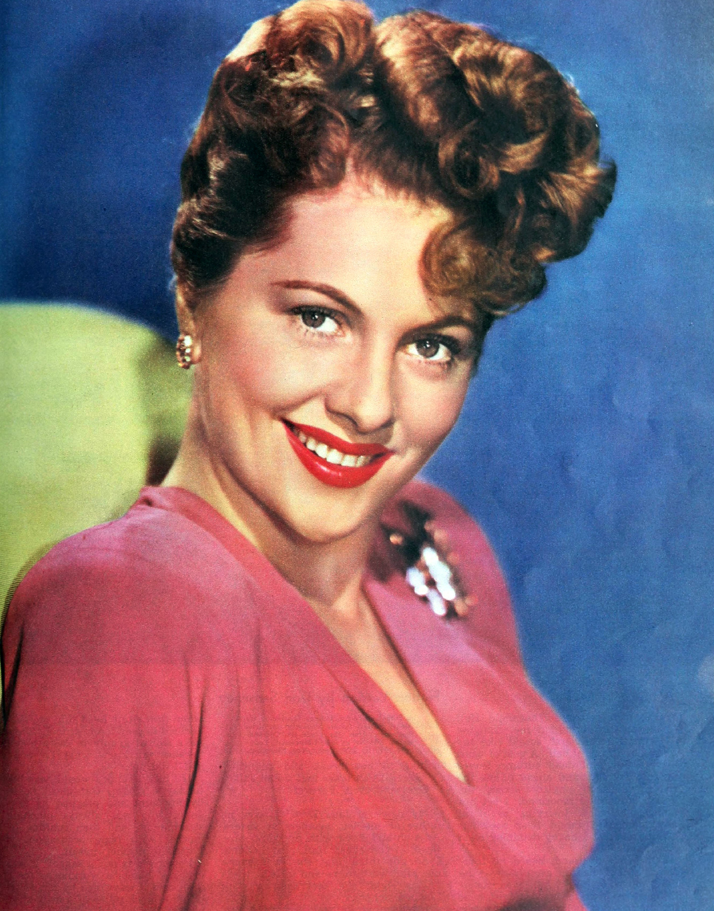 Photo of Joan Fontaine.